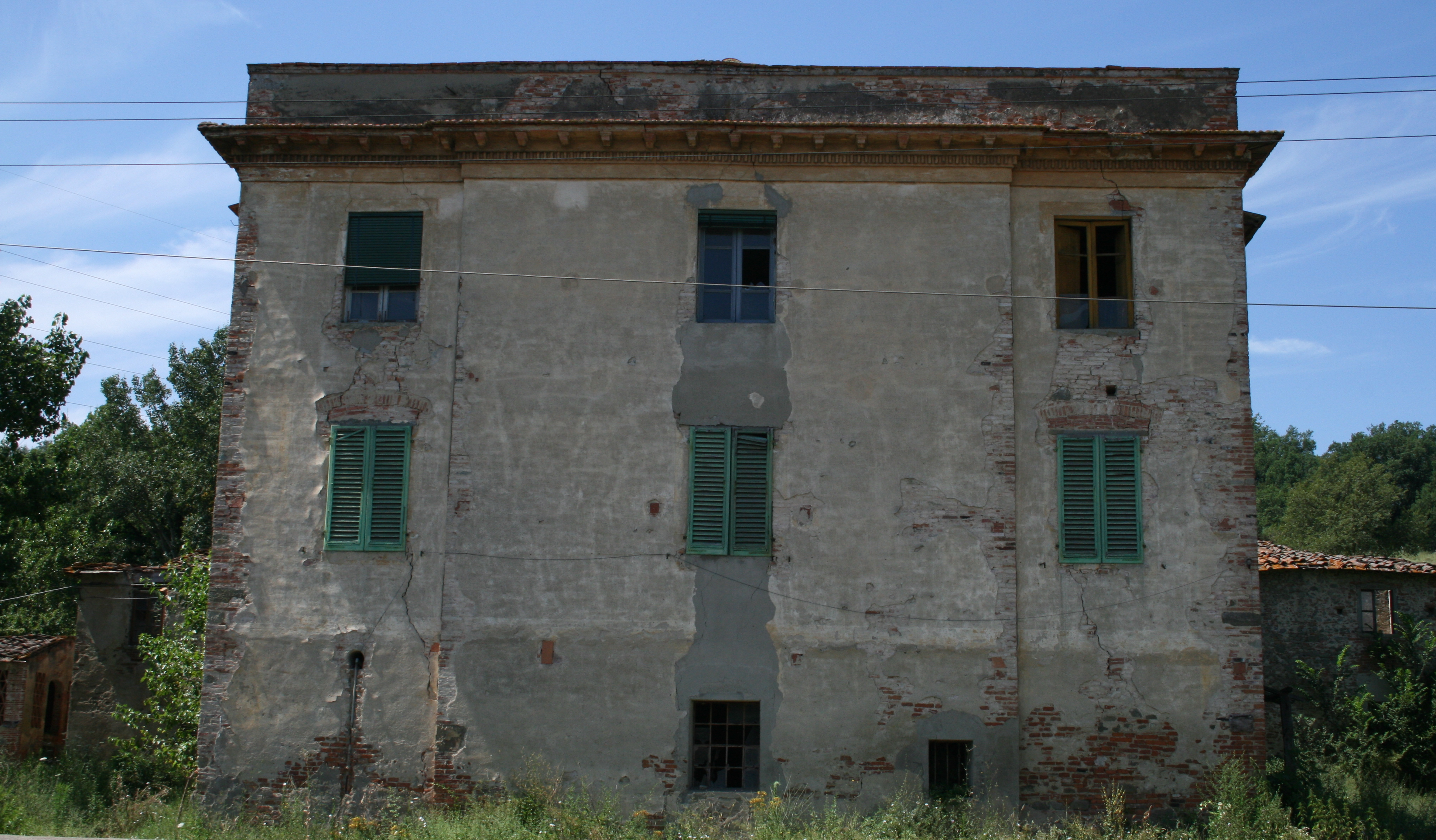 Poggiolino farm, formerly owned by the florentine Cerchi family